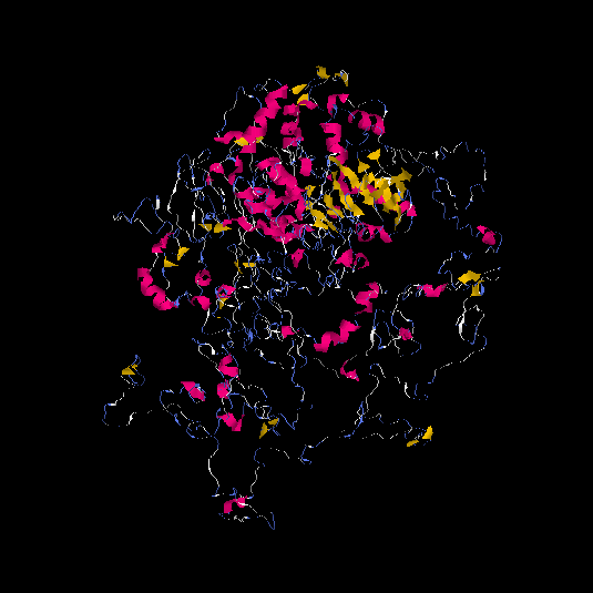 Second half of structure of NBEAL1.